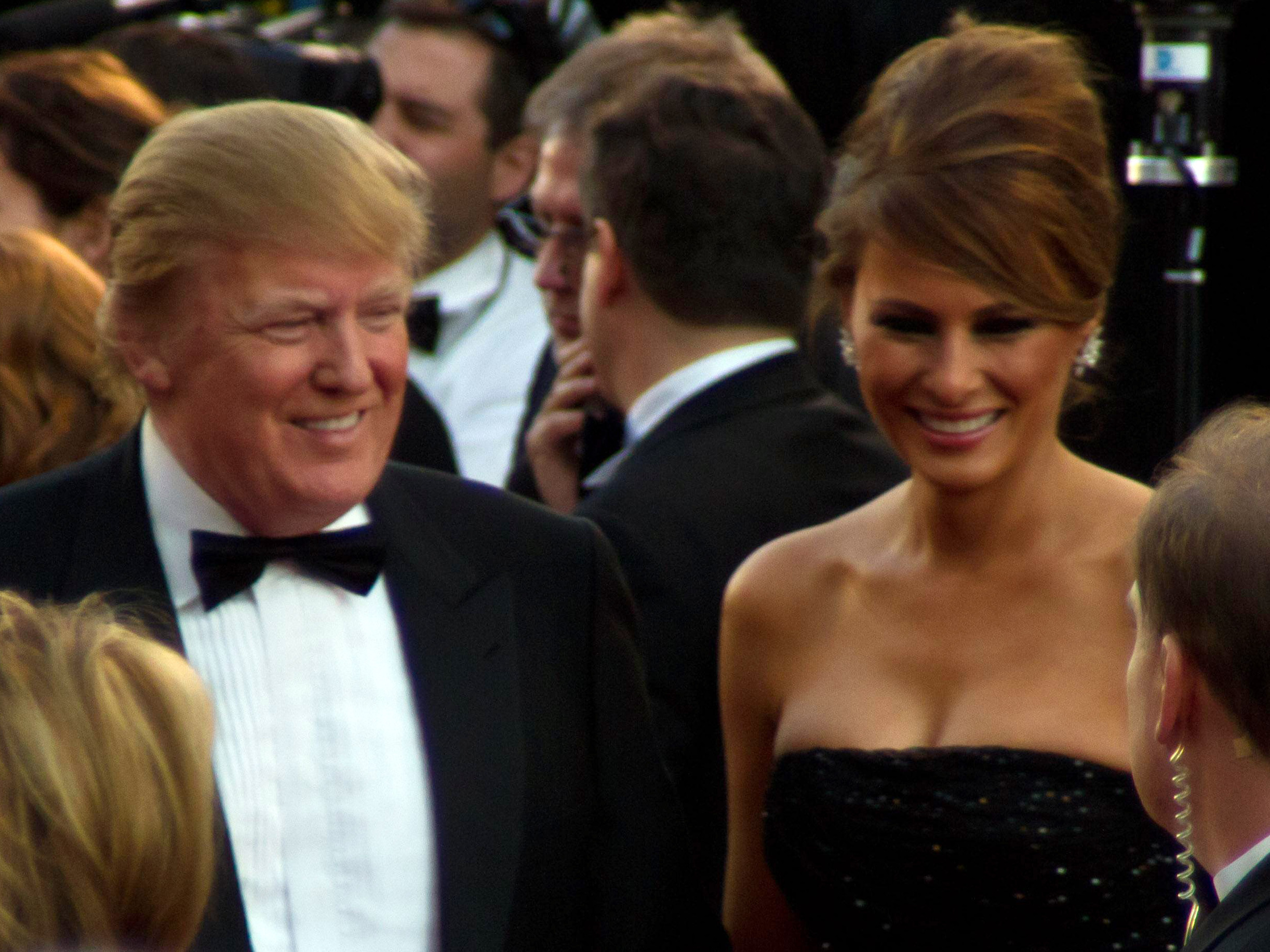 Donald and Melania Trump at the 83rd Academy Awards